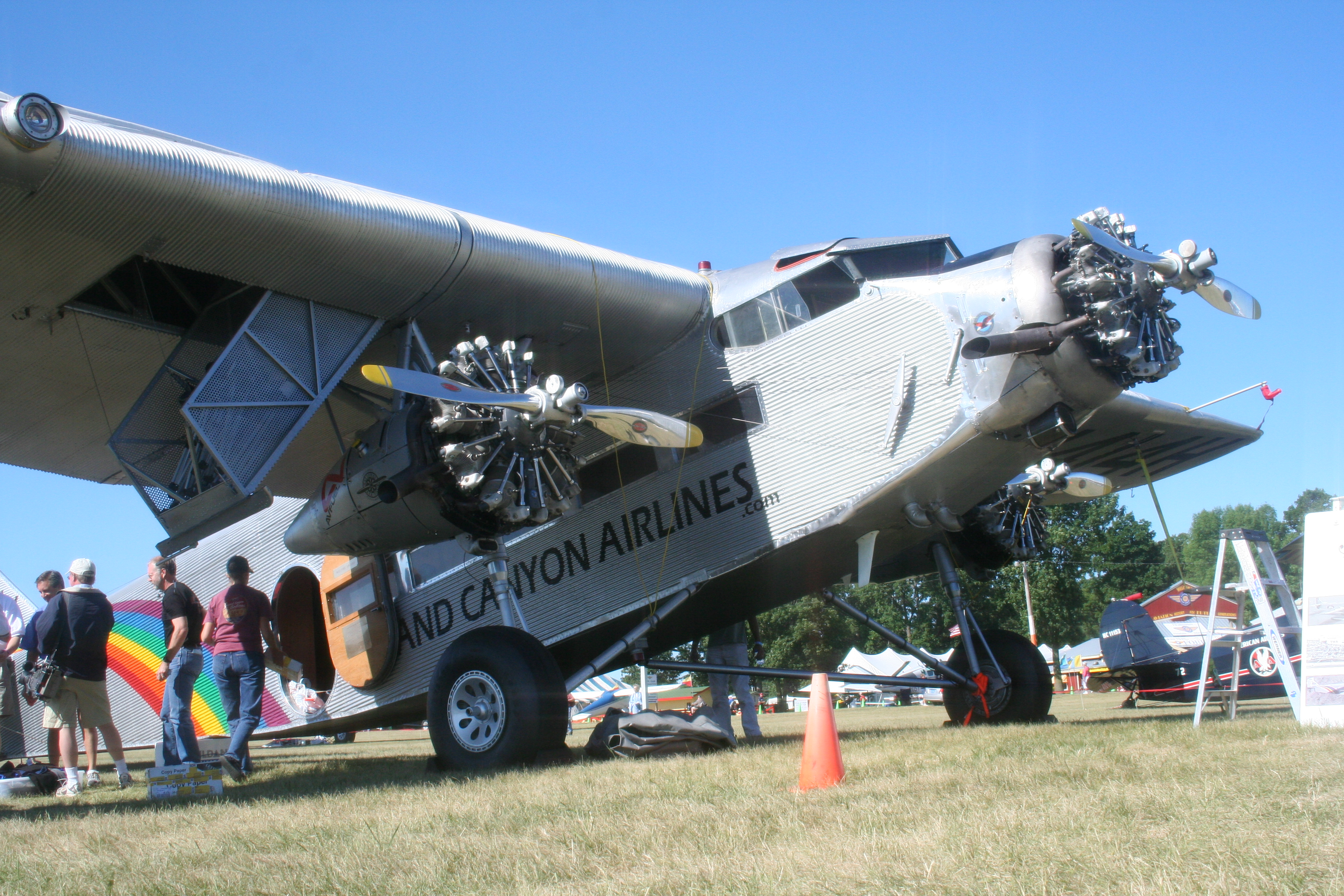 Grand Canyons Airlines Ford Trimotor